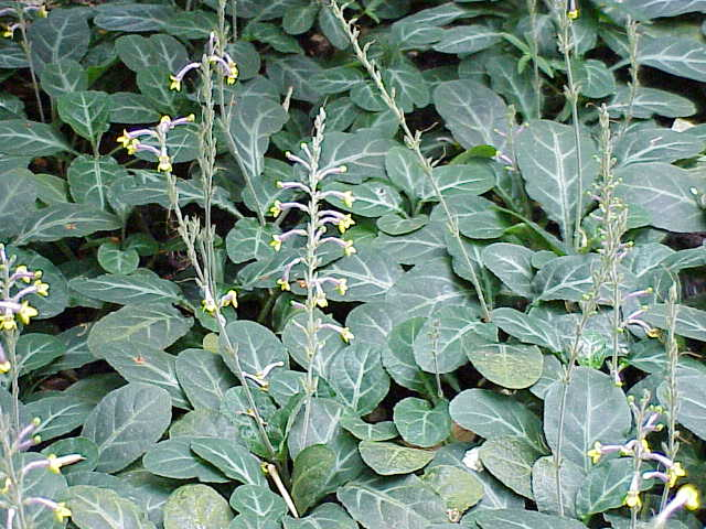 Species: Cryptophragmium ceylanicum Family: Acanthaceae Image No. 3